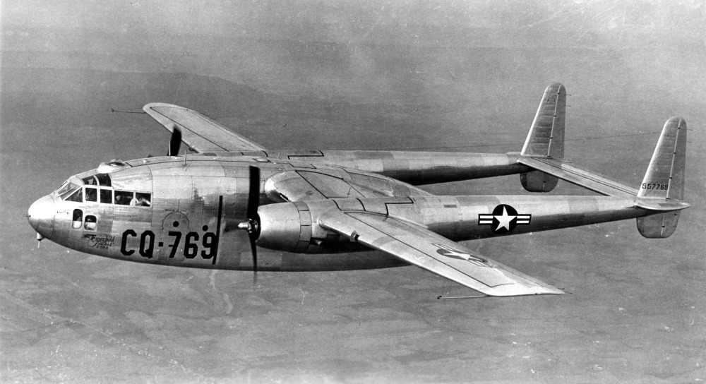 PictionID:40973129 - Title:Flying Boxcar Fairchild C-119A 45-57769 1947 - Catalog:15_002794 - Filename:15_002794.tif - Image from the Charles Daniels Photo Collection album "US Army Aircraft."----PLEASE TAG this image with any information you know about it, so that we can permanently store this data with the original image file in our Digital Asset Management System.----SOURCE INSTITUTION: San Diego Air and Space Museum Archive